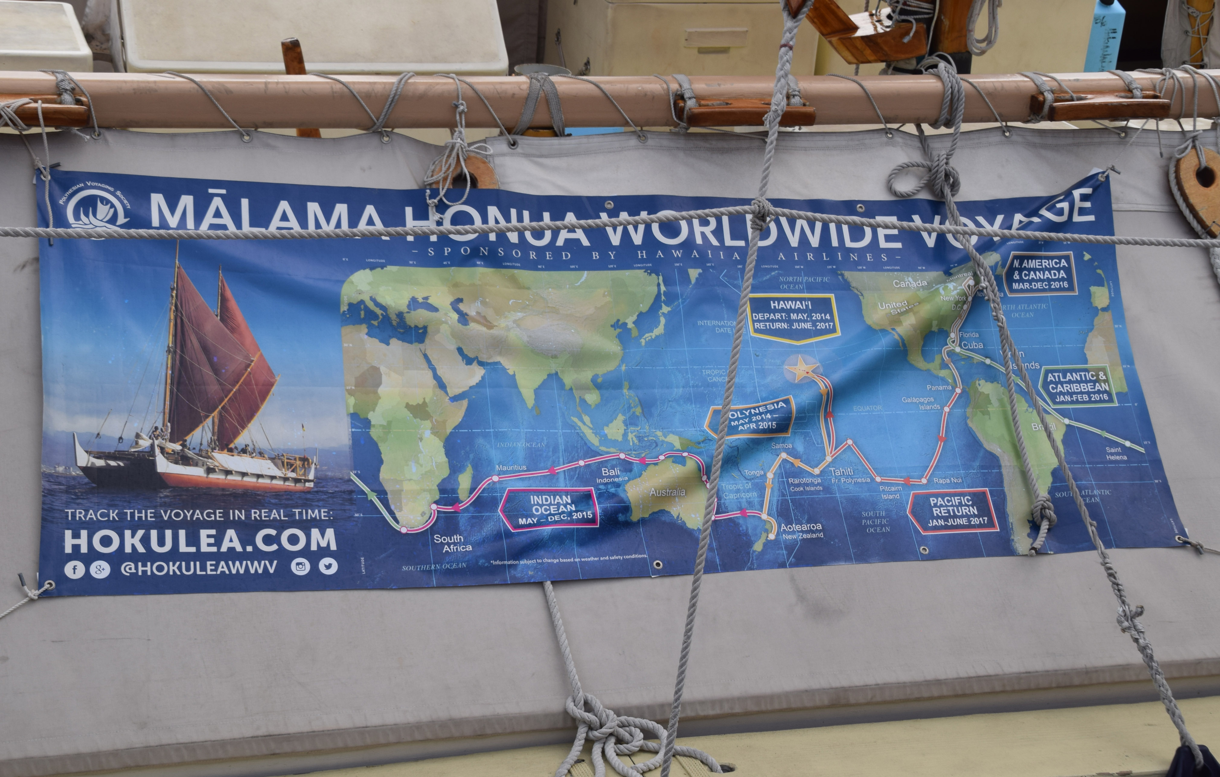 Hokulea's worldwide voyage map 2014-2017, taken at Kona Port, Island of Hawaii, USA